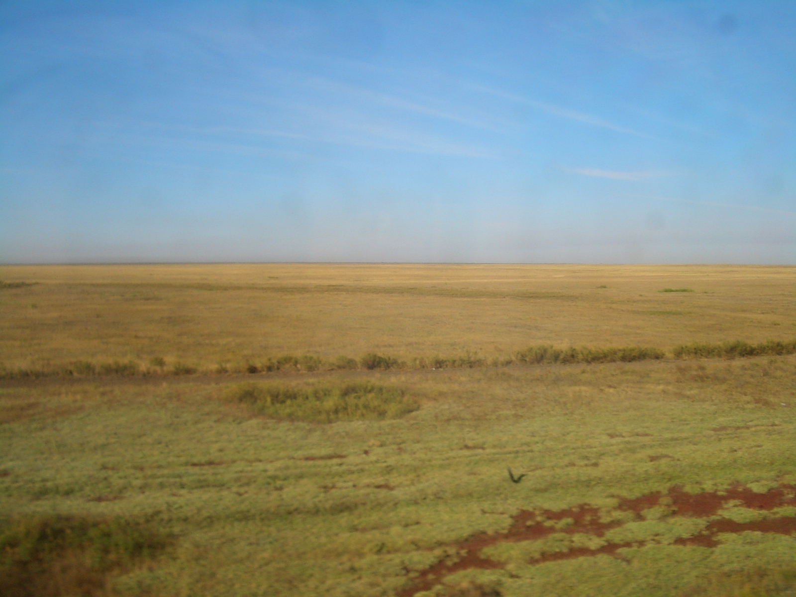 The steppes of central Kazakshtan (Akmola Province), as seen from a train approaching Astana from the north. The picture taken about 30 min before reaching Astana station.